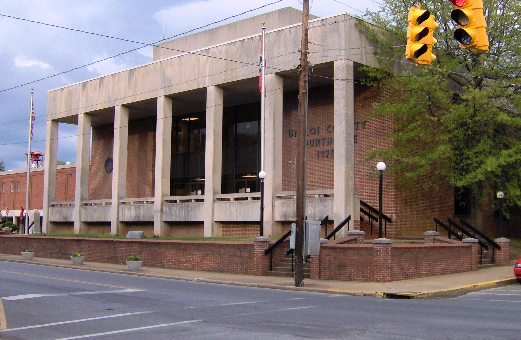 Unicoi County Courthouse in Erwin, Tennessee, in the southeastern United States.